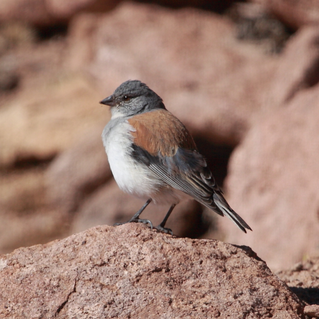 Red-backed Sierra Finch at Rio Machuca, San Pedro de Atacama, Chile